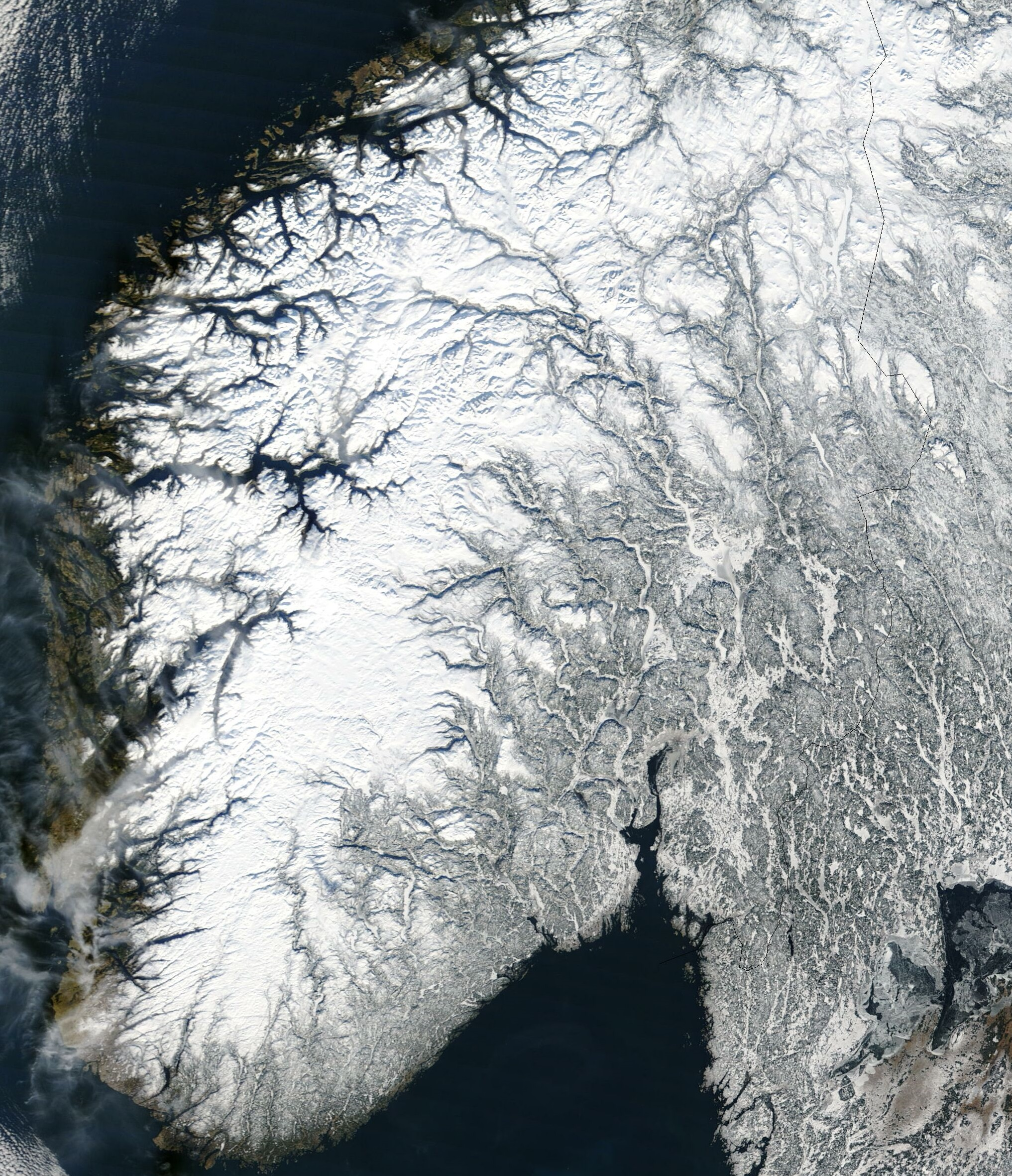 Satellite image of continental Norway in February 2003. Cropped to show south Norway.